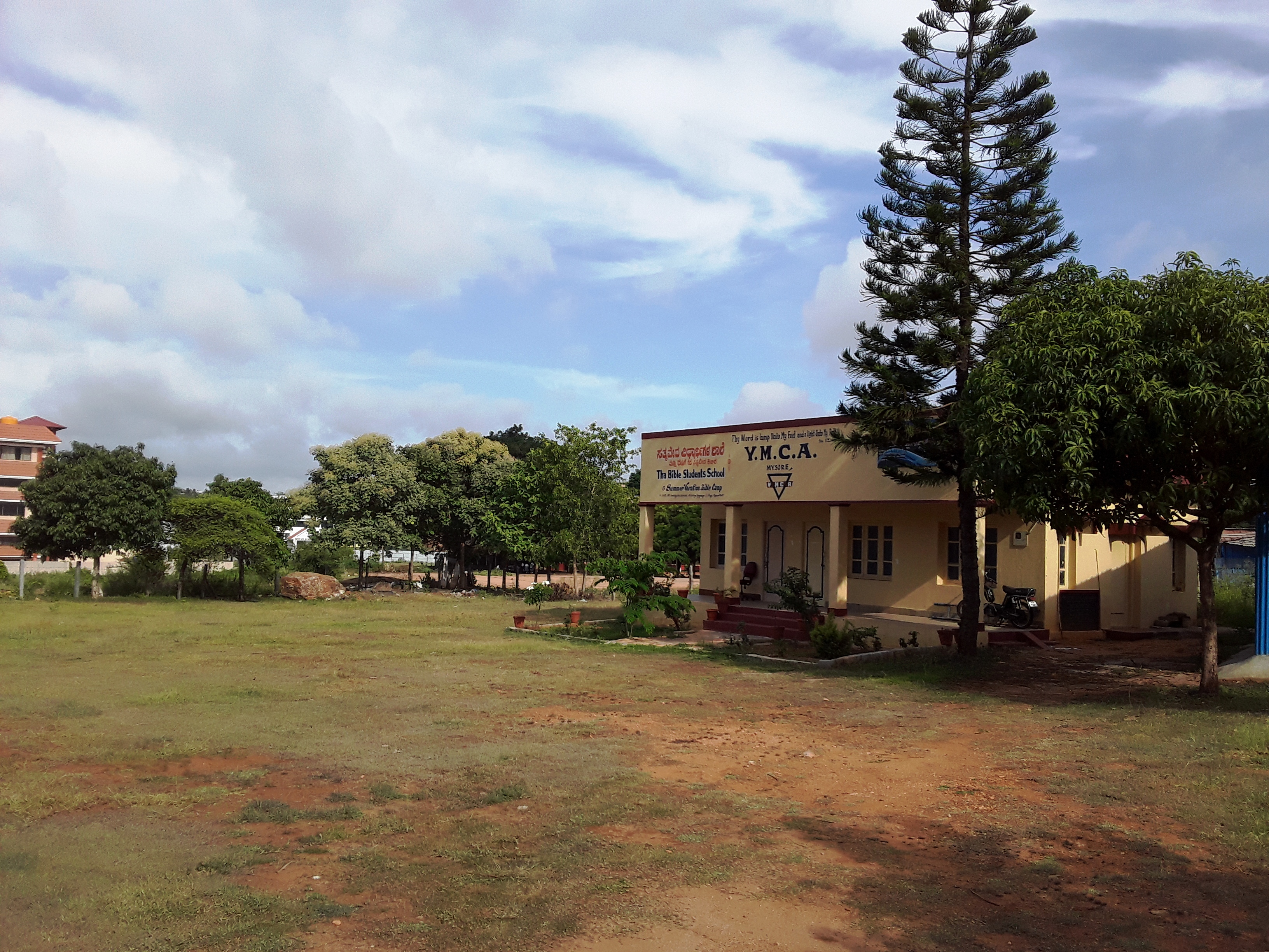 Mysore district, Karnataka state, India.